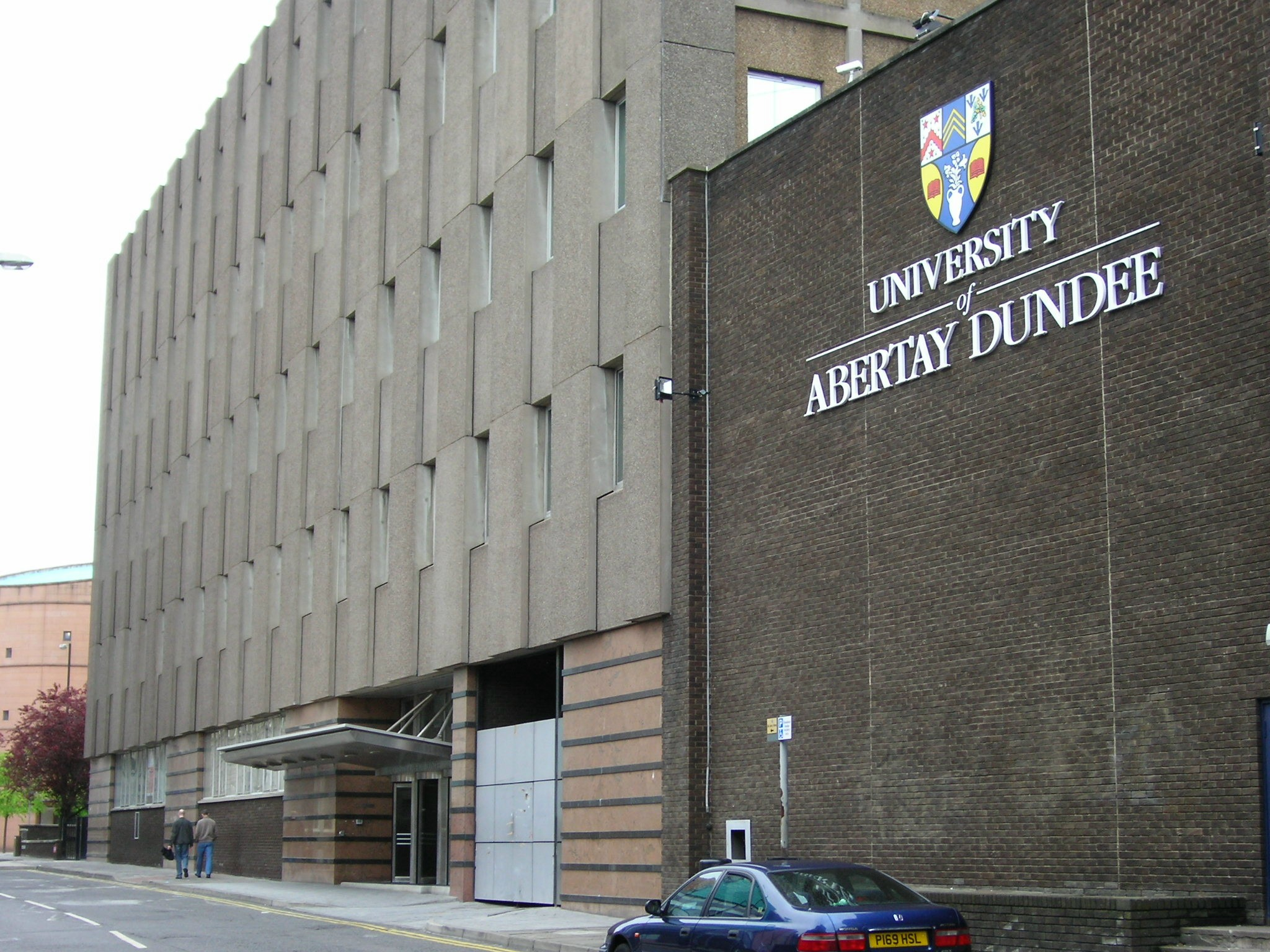 Abertay University Kidd Building